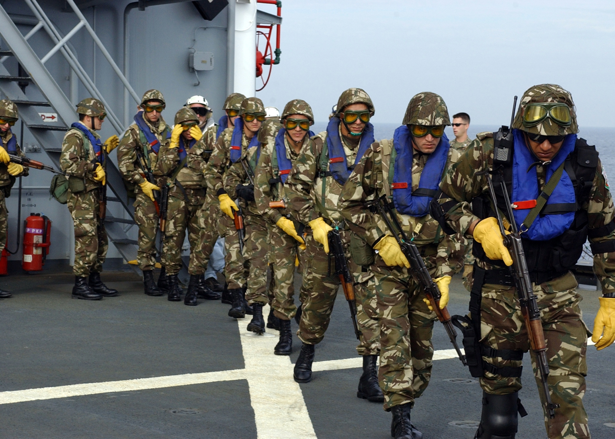 Algerian Sailors conduct Maritime Interdiction Operations (MIO) aboard Military Sealift Command fleet replenishment oiler USNS Patuxent (T-AO 201) in support of Phoenix Express 2007. The two-week long exercise is focused on developing increased maritime domain awareness, better information sharing practices, and the ability to operate jointly. The exercise includes Algeria, France, Greece, Italy, Malta, Morocco, Portugal, Spain, Tunisia, Turkey and the United States.